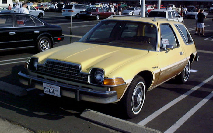 AMC Pacer. Photo by Morven at the weekly Donut Derelicts car show in Huntington Beach, California on Saturday July 17, 2004.